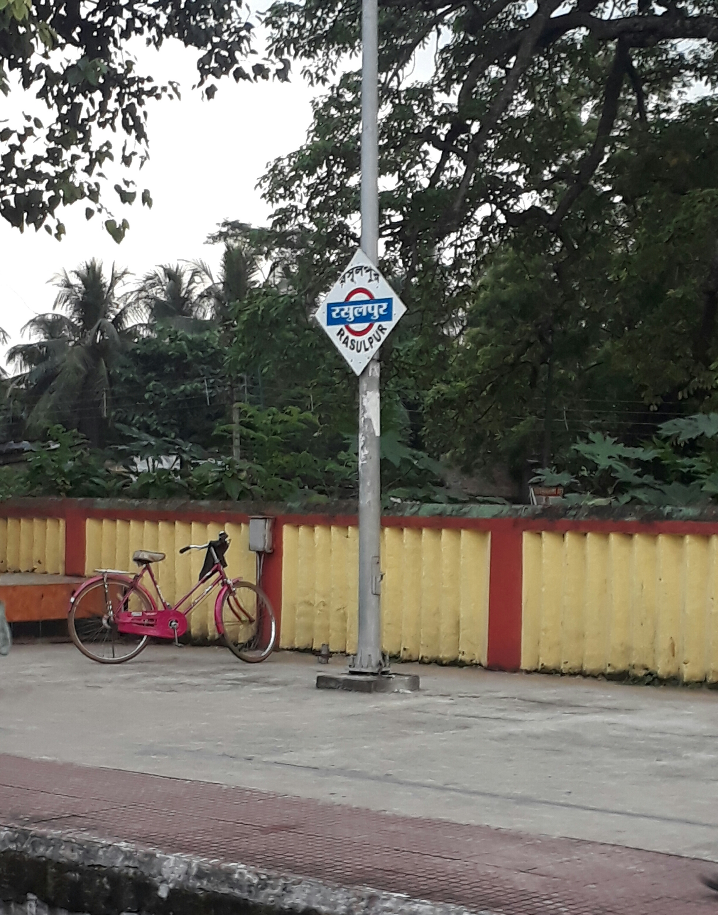 Rasulpur Rail station, Howarh Burdwan Main line